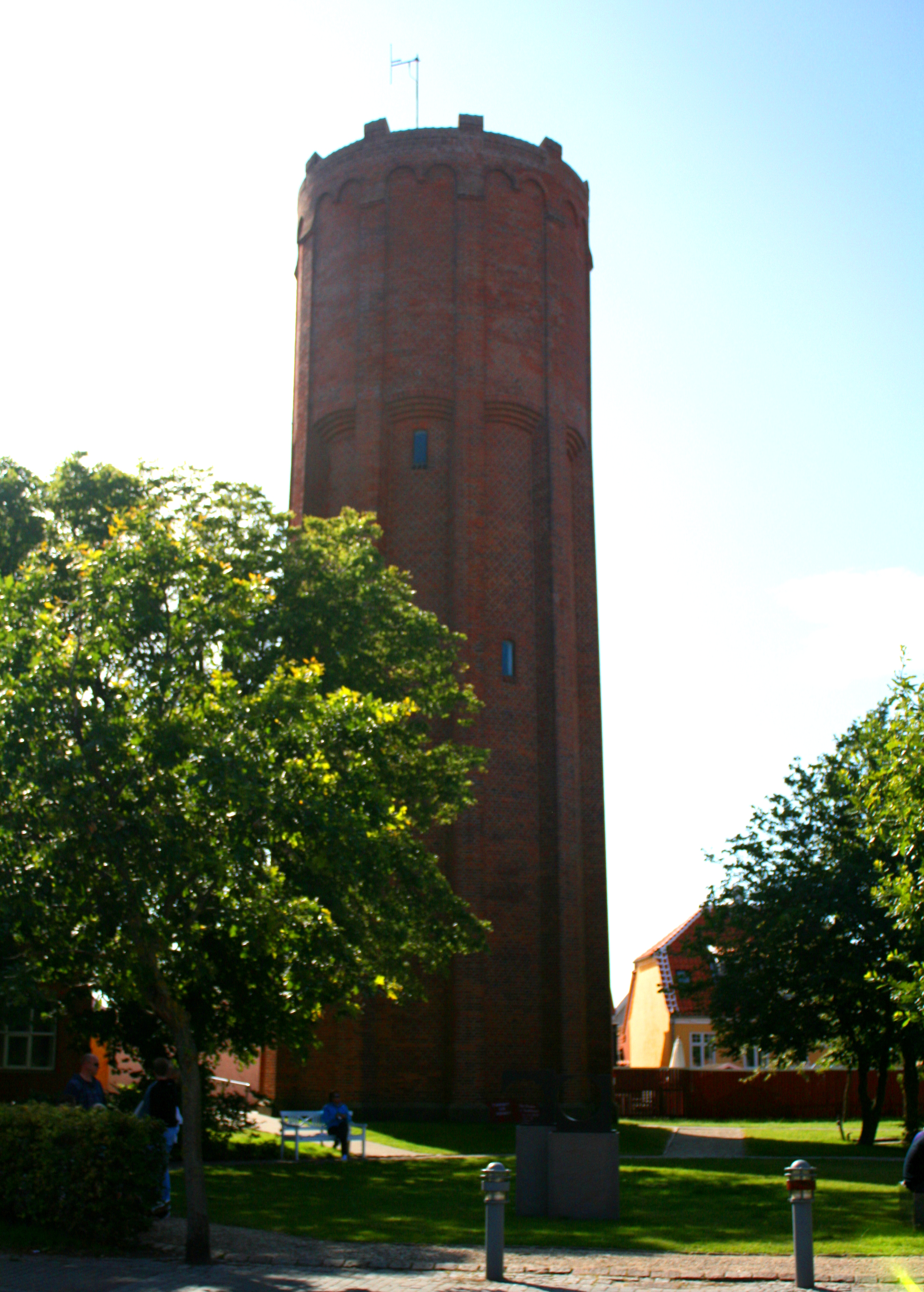 Water-tower in Skagen, Denmark